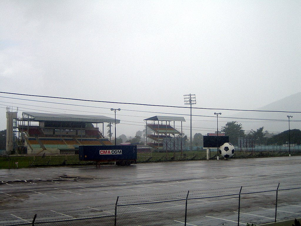 Photograph taken by myself (J Kneller) on en:2005-11-04. Subsequently cropped and edited in Picasa.